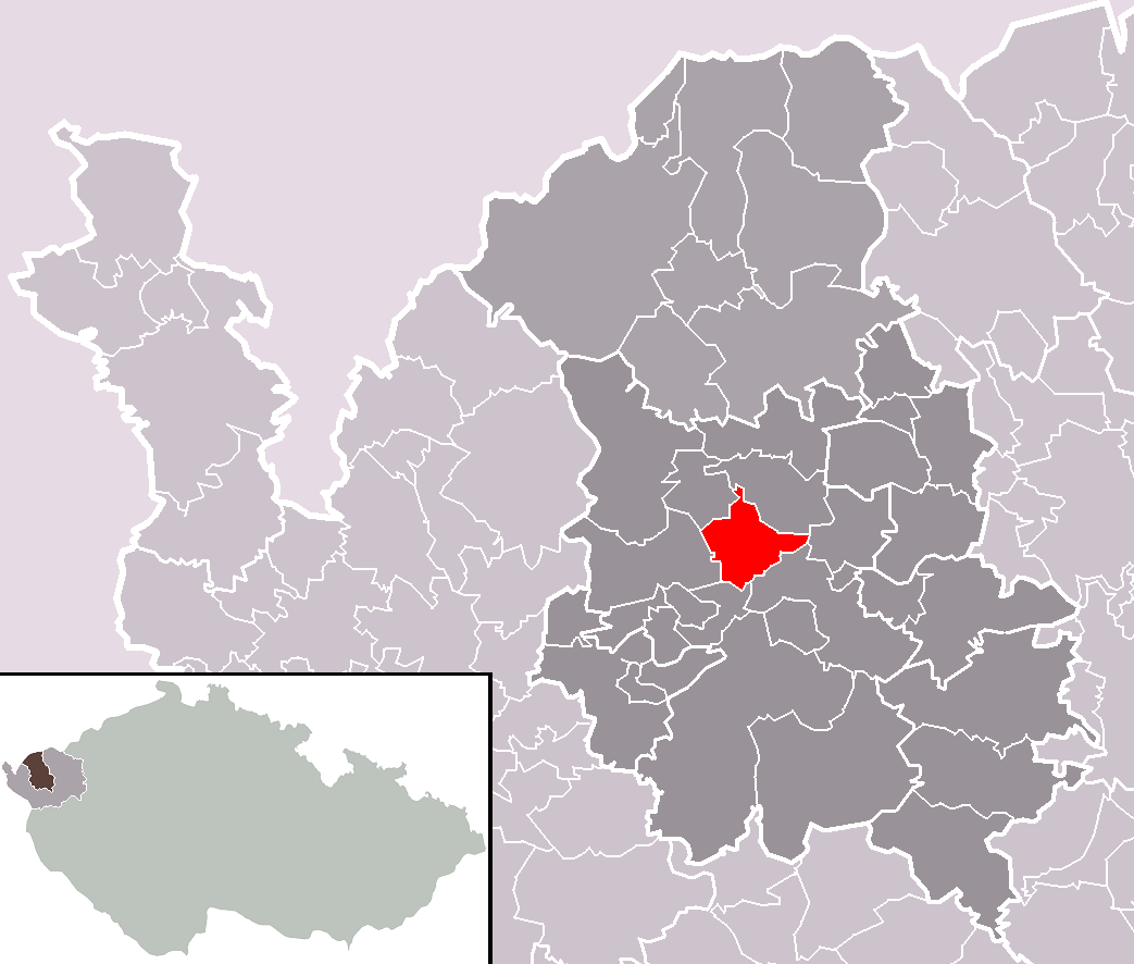 Location of Svatava municipality within Sokolov District and administrative area of Sokolov as a Municipality with Extended Competence.